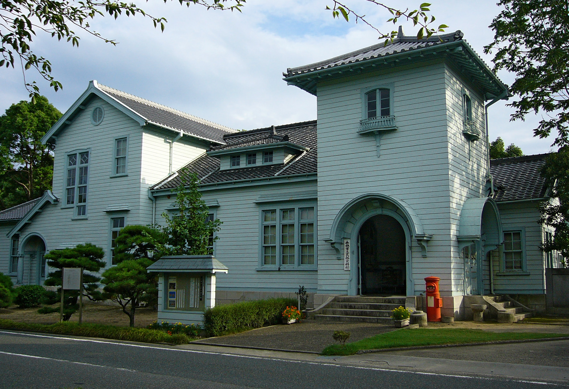 Ako Municipal Fork Culture Museum in Ako, Hyogo, Japan